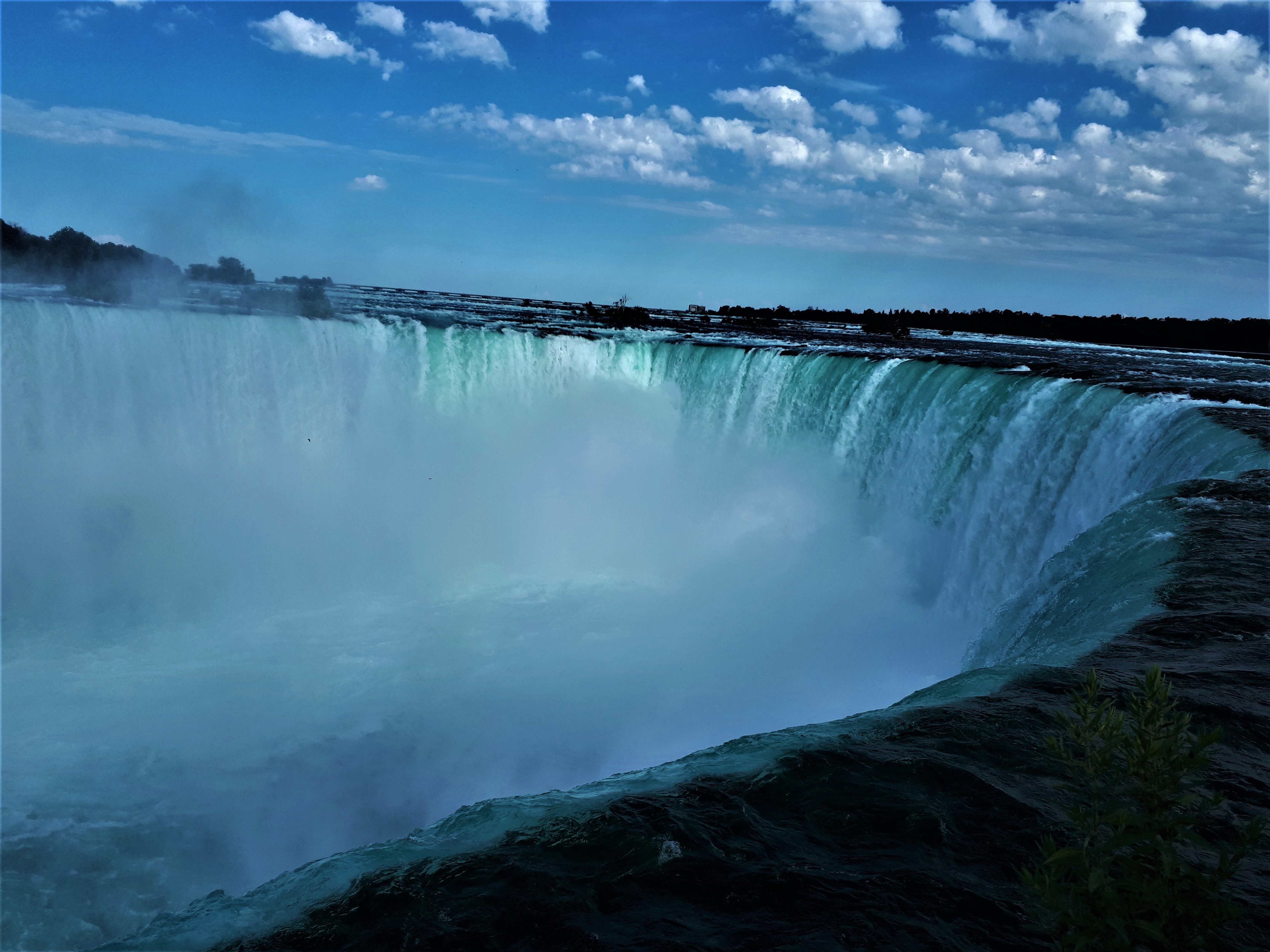 Niagara Falls- Horseshoe Falls